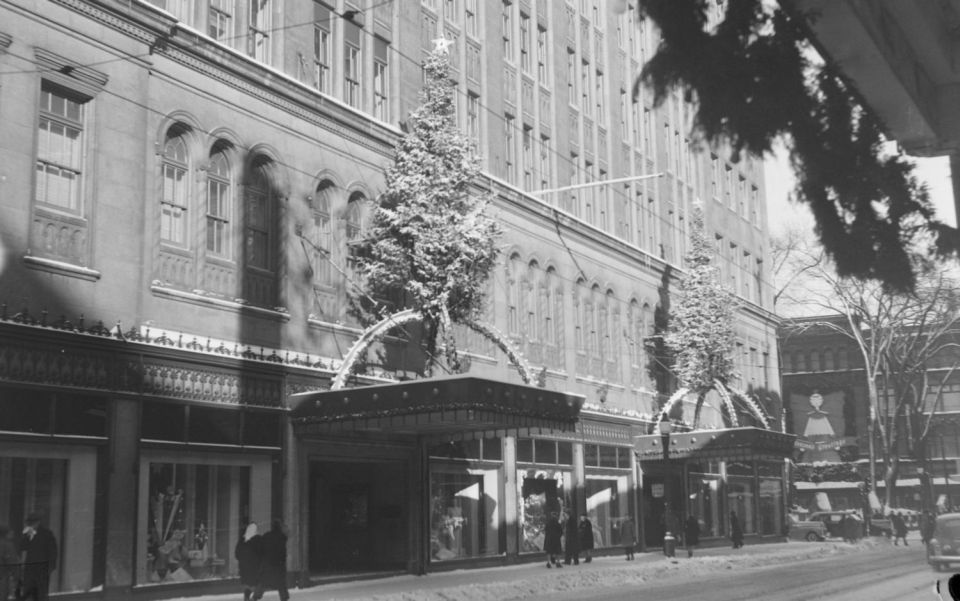 We see the front of the store Eaton in Montreal whose canopies are decorated with Christmas trees.